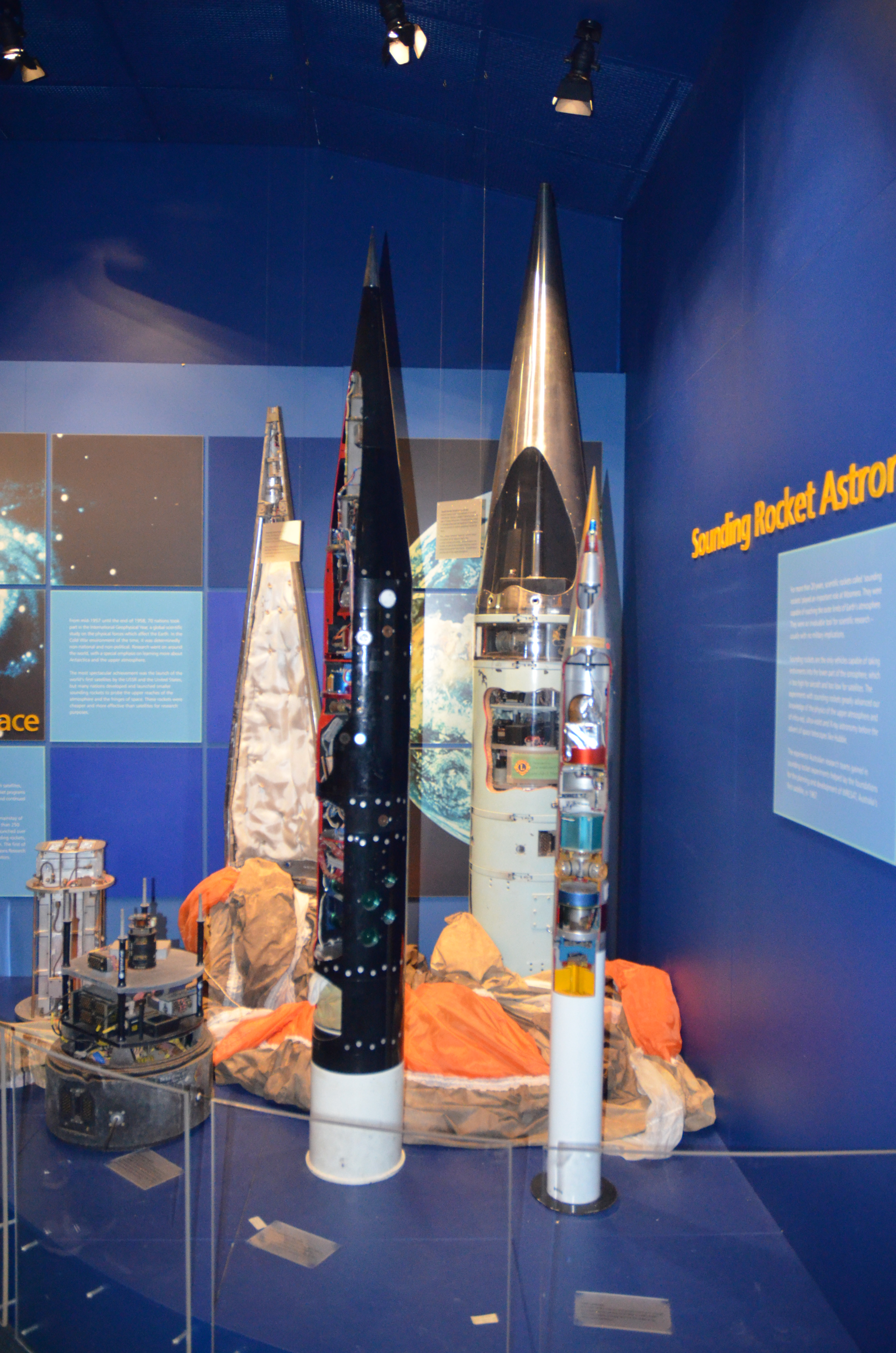 Sample Sounding rocket payload in a Museum near the Woomera Missile Park.